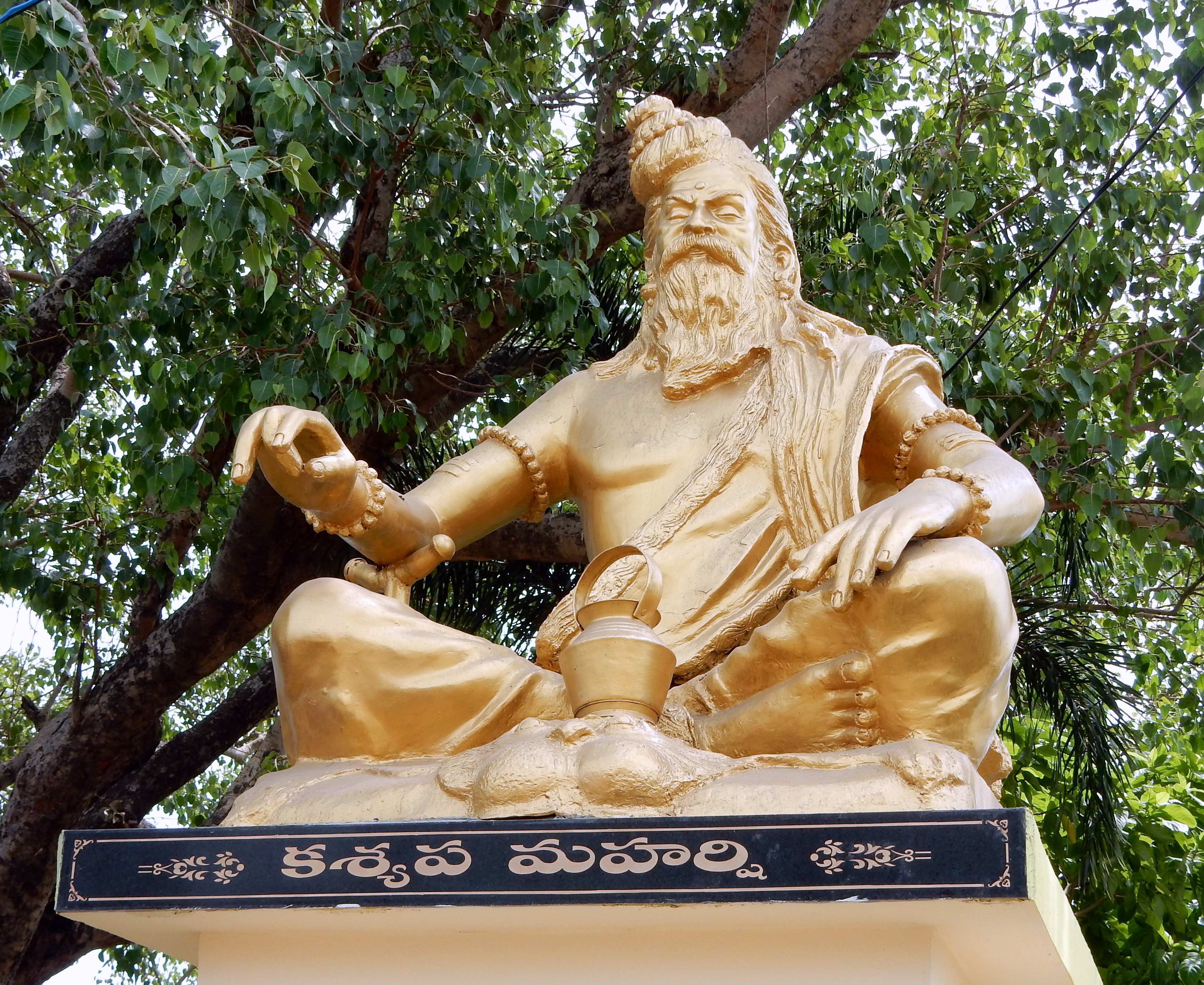 Kashyapa muni statue in Kovvuru, Andhra Pradesh